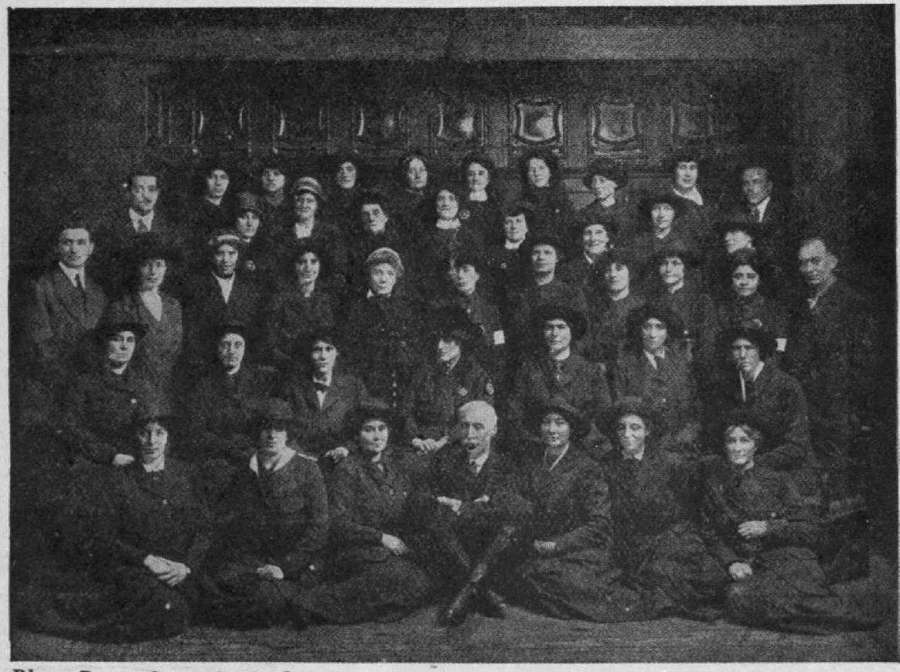 STOBART HOSPITAL SERBIAN RELIEF FUND UNIT No. 3. Mrs. St. Clair Stobart in centre second row with (from left to right) Doctors King-May, Payne, Marsden, Atkinson, Tate and Coxon. Dr. Hanson absent Српски (ћирилица): Стобарт болница, Српски потпорни фонд, Трећа јединица, Госпођа Ен Синклер Стобарт у центру други ред са (слева на десно) Докторима Кинг-Меј, Пејн, Марседн, Аткинскон, Тате и Коскон. Др Хансон одсутан